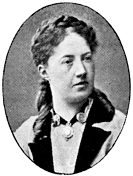 Image scanned from the book "Svenskt Porträttgalleri II" ("Swedish Portrait Gallery II") published 1899